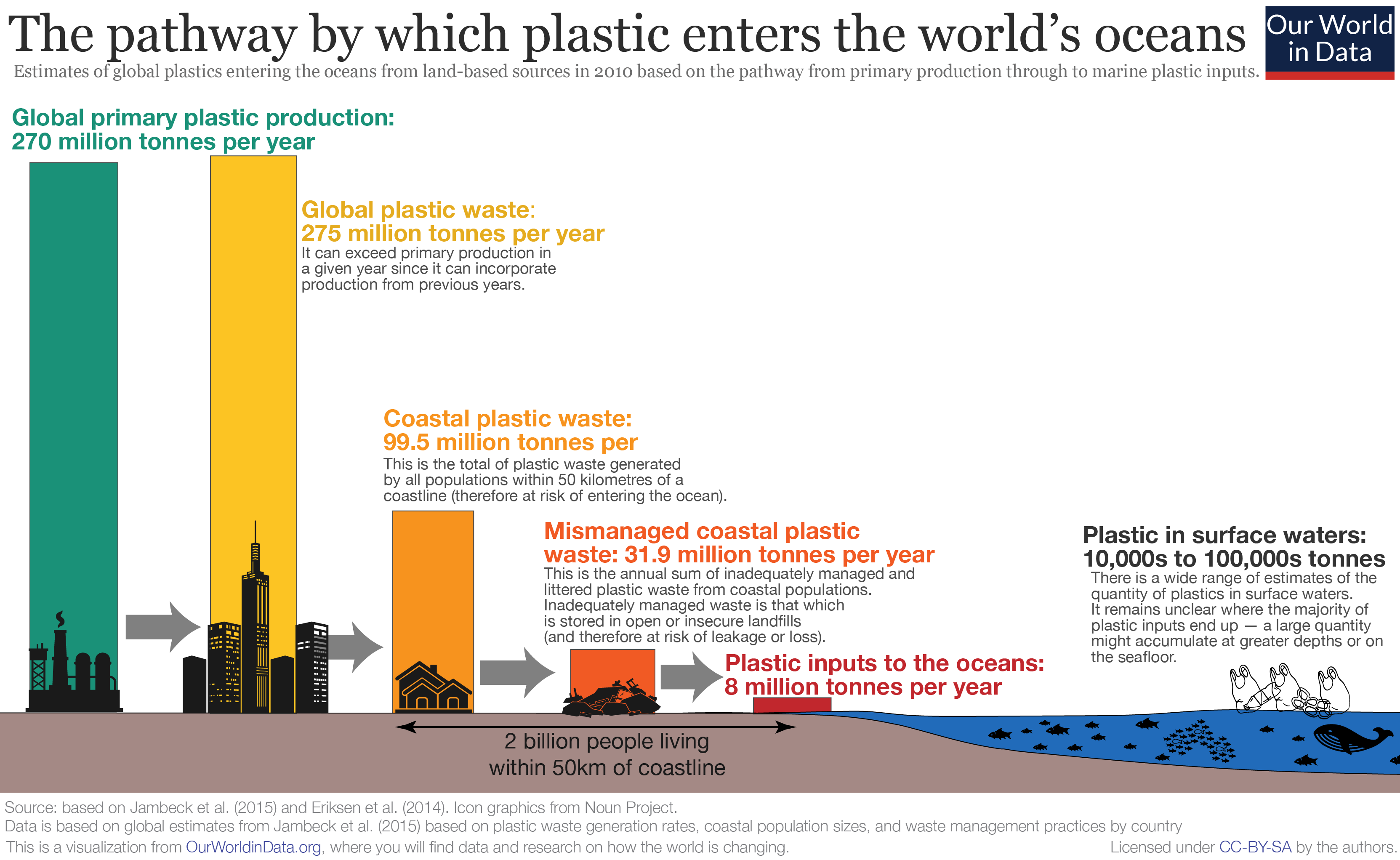 A bar chart showing the impact of plastic on the world's oceans.